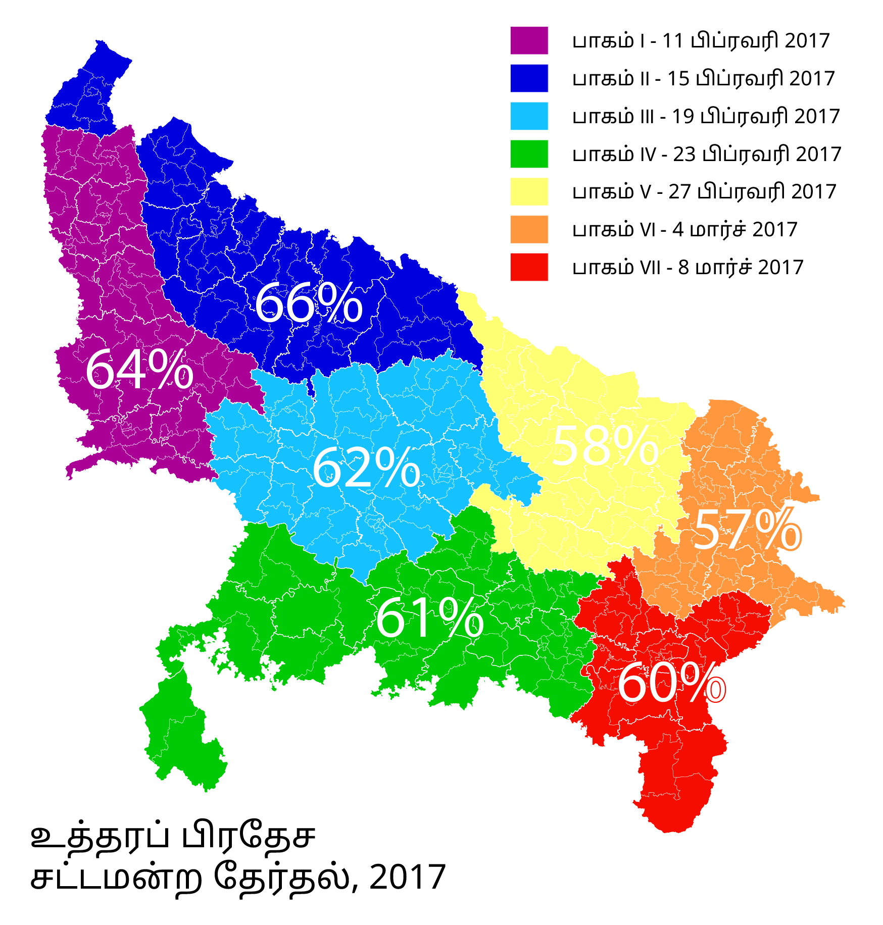 A map showing the schedule of the Uttar Pradesh Legislative Assembly election, 2017 in Tamil.